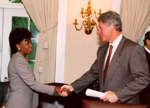 Rep. Maxine Waters with President Bill Clinton, August, 1994.